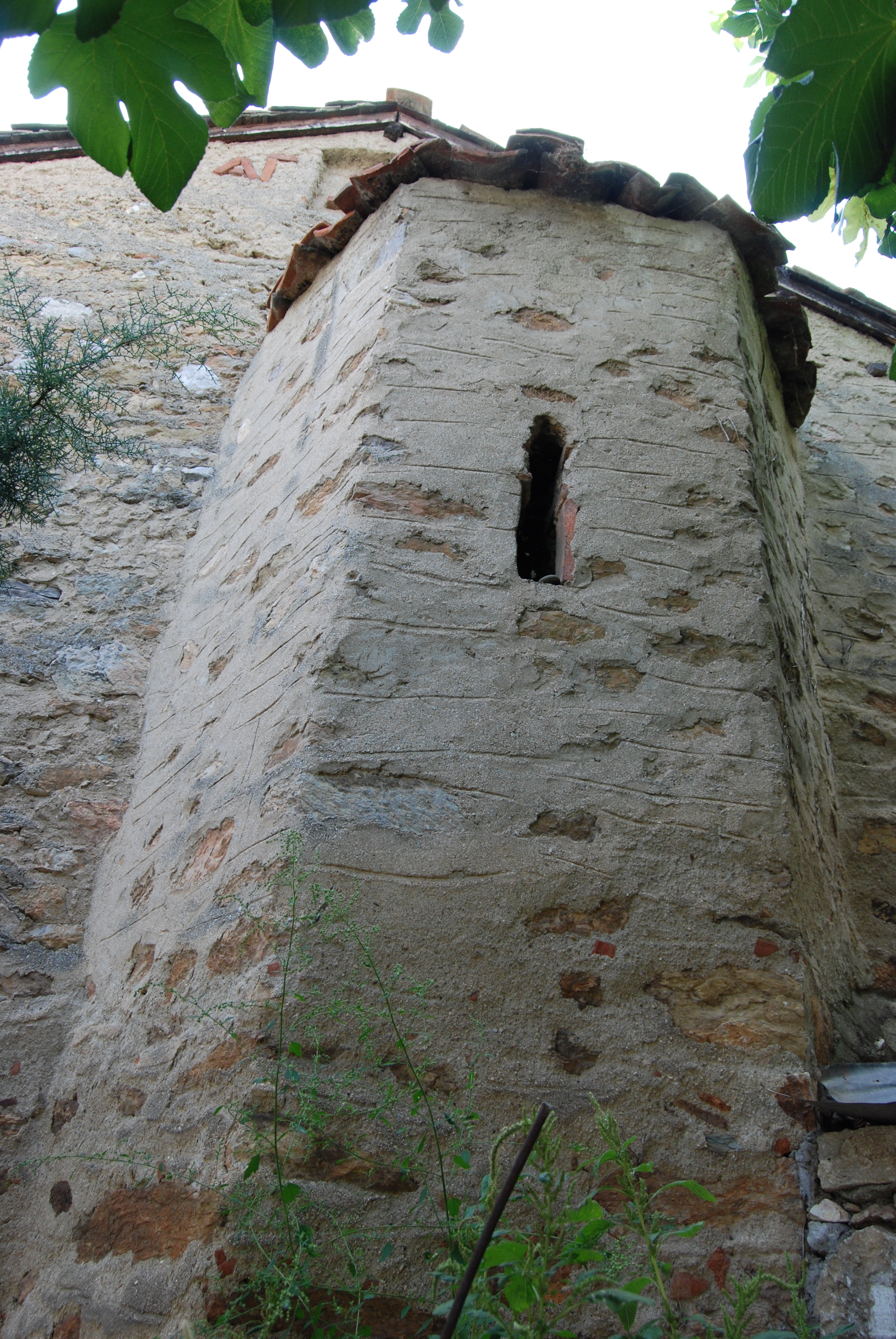 Saint Nicholas Petritis Church in Kastoria from the East